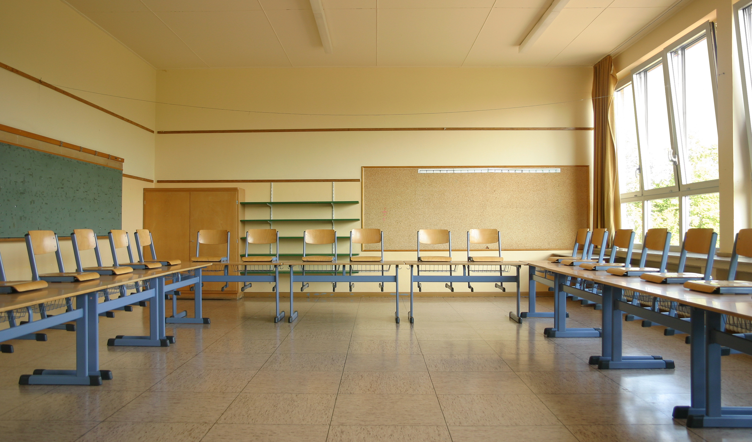 Empty Classroom of an Elementary school in Rhineland-Palatinate, Germany